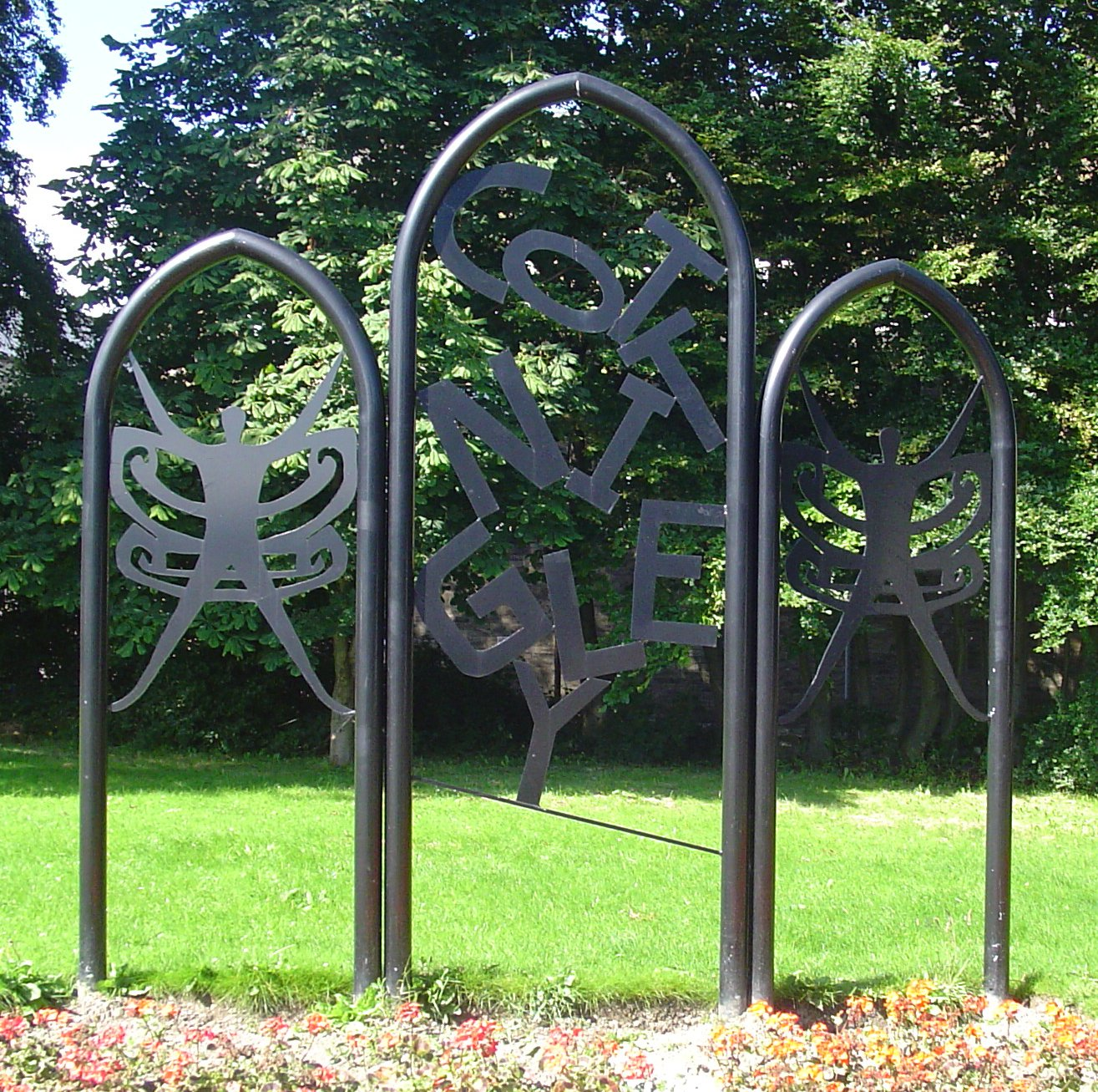 Signpost in Cottingley, near Bradford